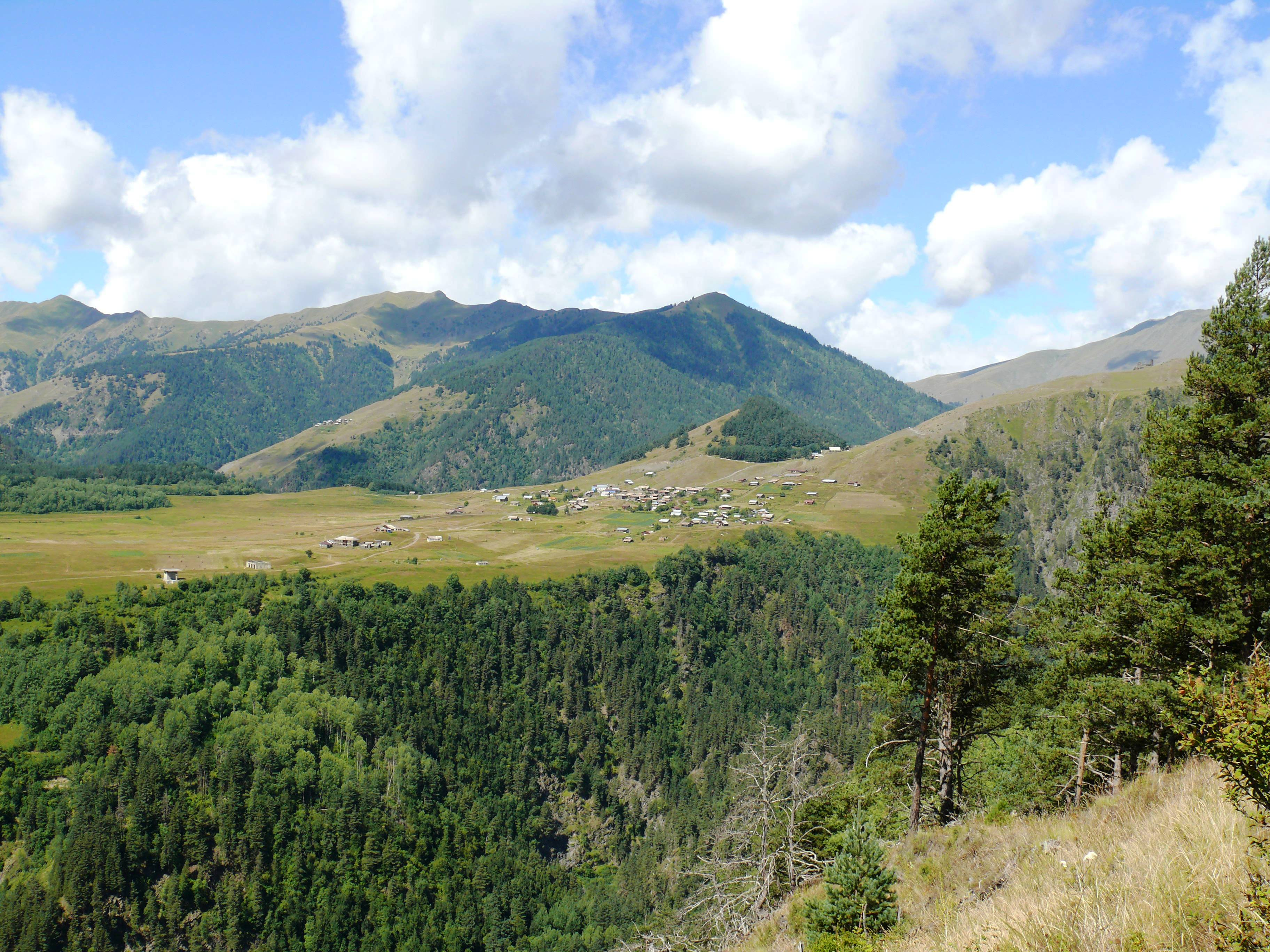 Thusheti Omalo